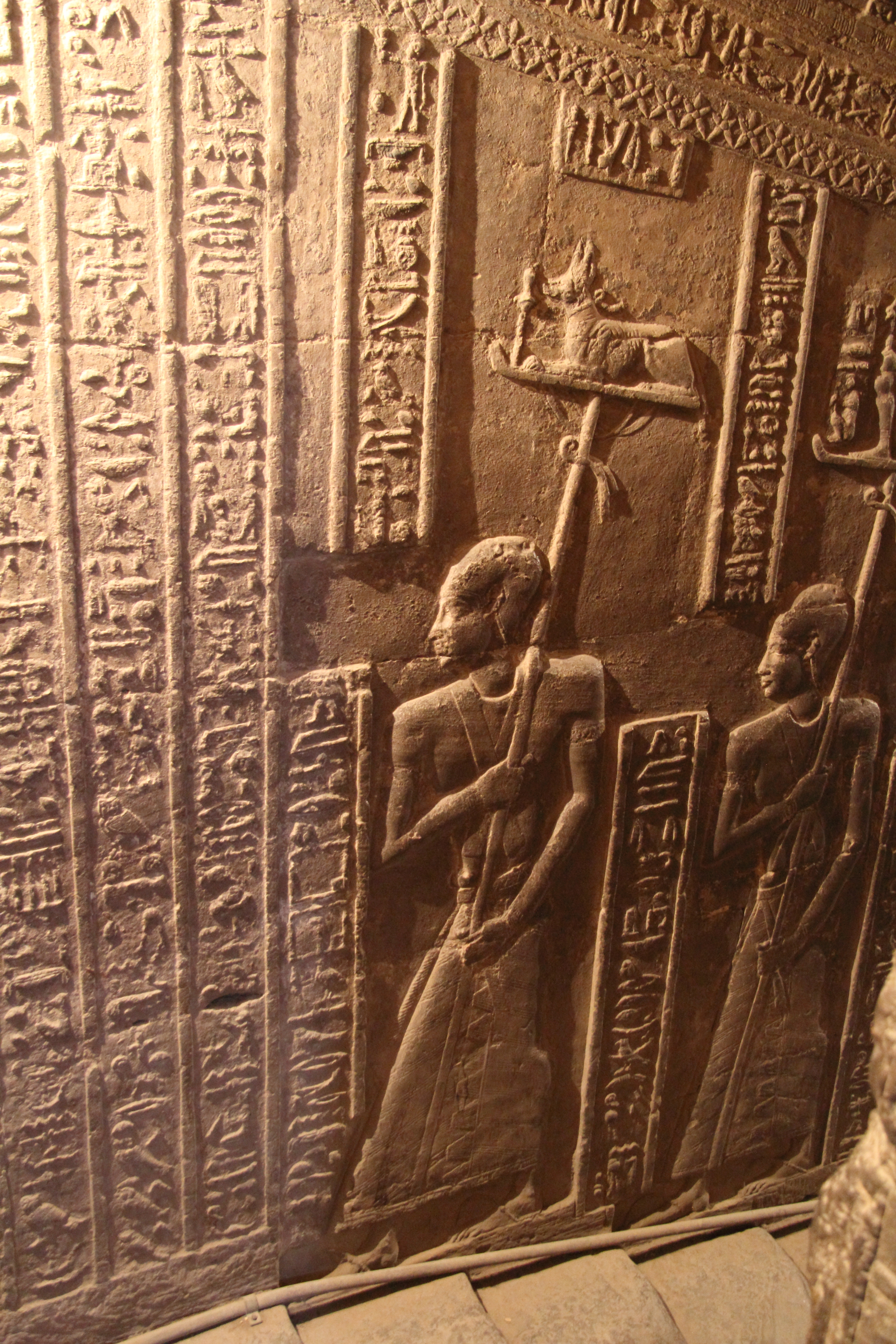 Dendera, Egypt: Hathor Temple